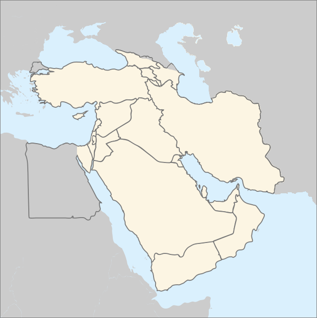 Map of Western Asia.